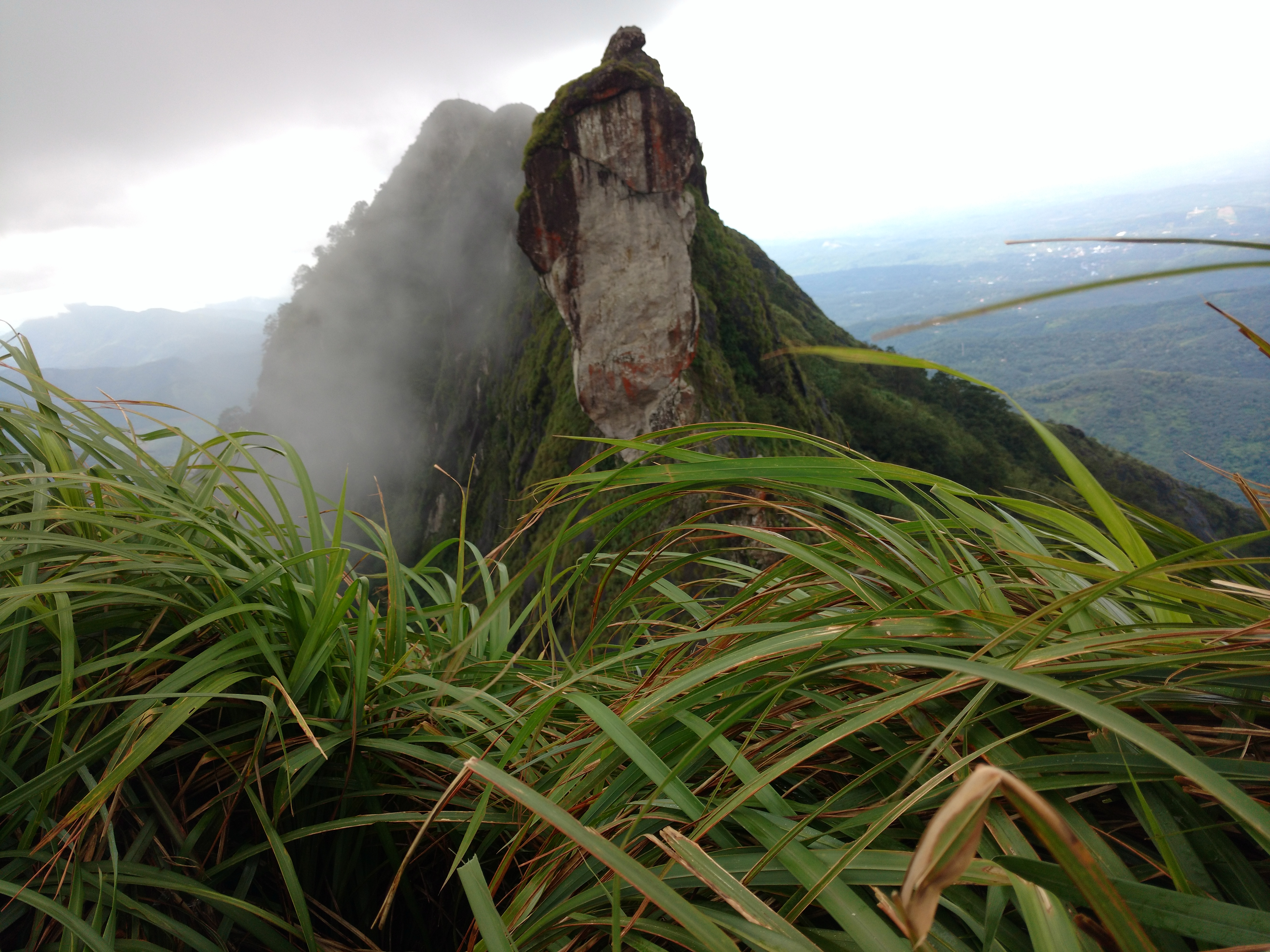 Best trekking destination in Kottayam